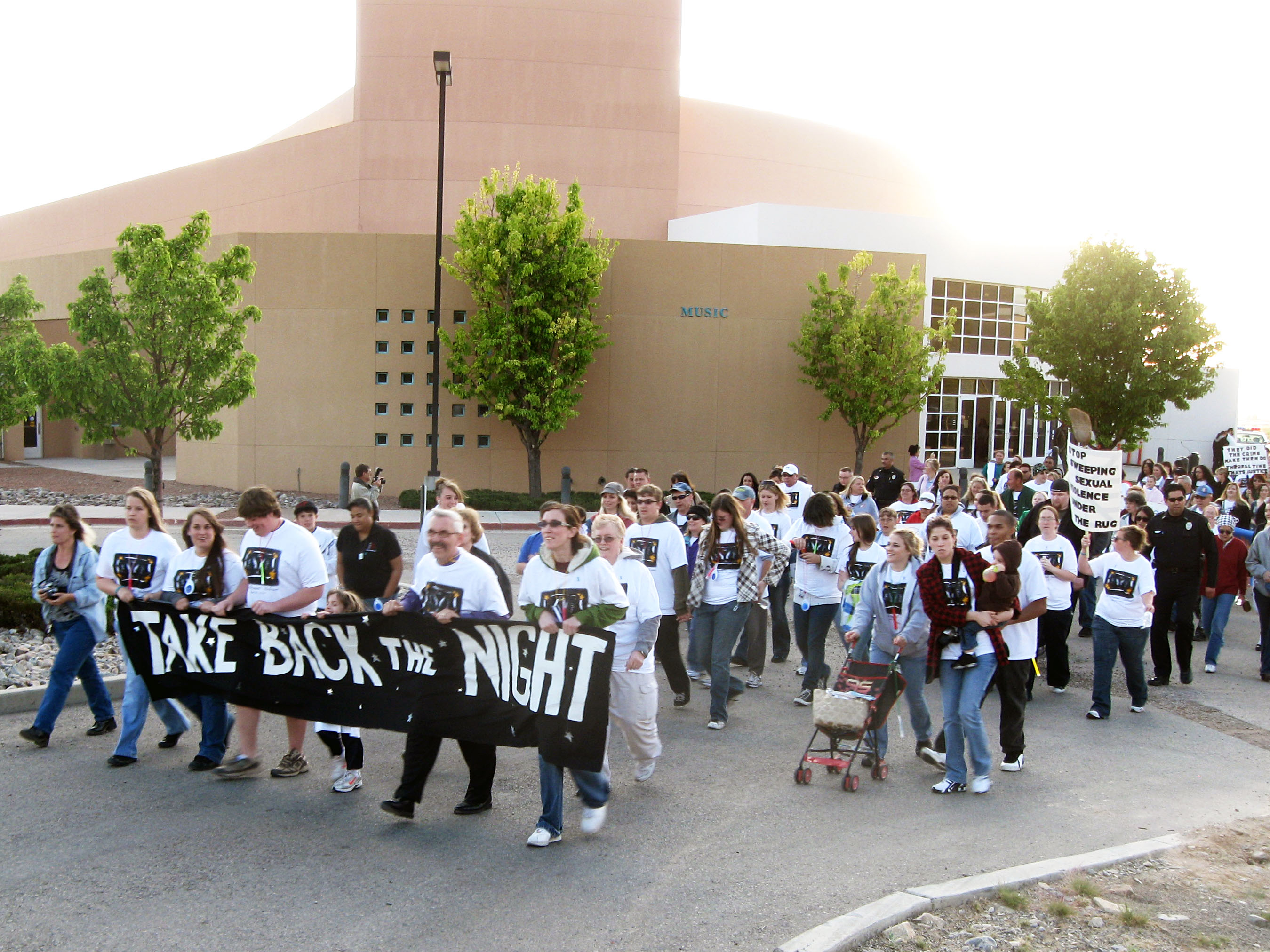 Take Back The Night march in Alamogordo, New Mexico. The Tays Special Events Center of New Mexico State University-Alamogordo is in the background. Take Back The Night is an international program of rallies and protest marches against sexual violence.